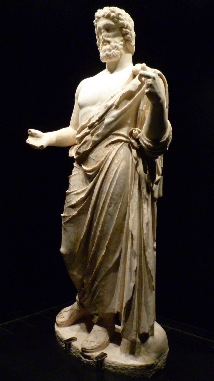 Asklepios. Greek sculpture found in the archaeological site of Ampurias in Girona (Spain).